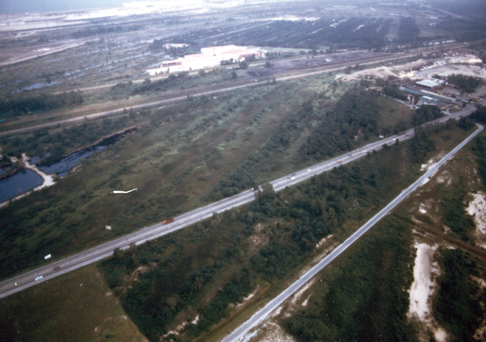 Indiana Dunes National Lakeshore, Indiana. Fragmentation of park land by urban areas, such this highway, can create islands of natural ecosystems and can disrupt the natural movement of plants and animals.